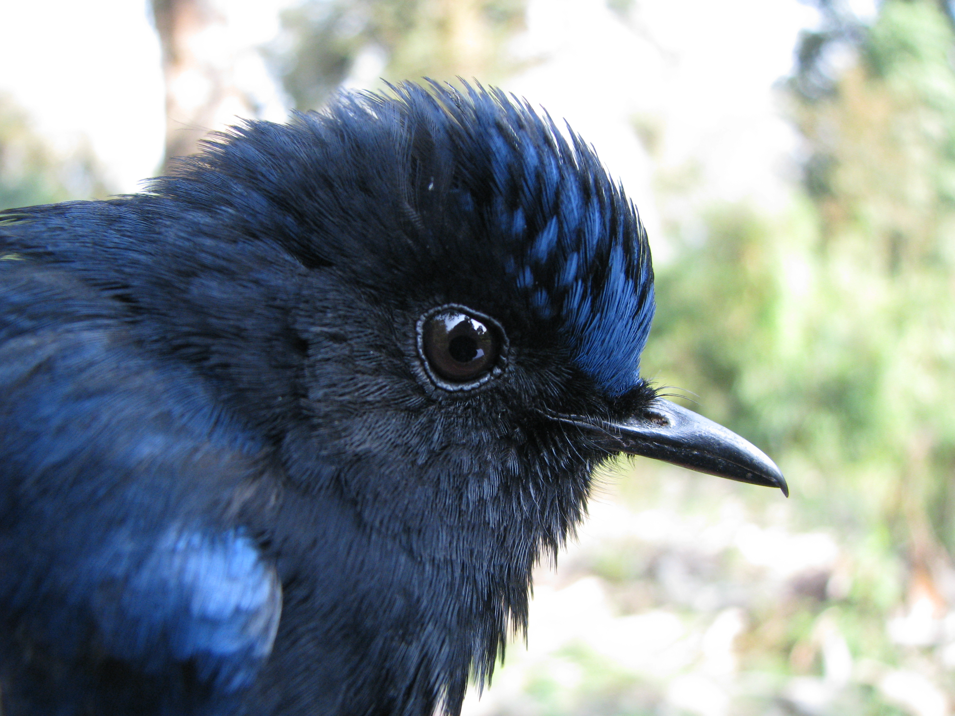 A male White-tailed Robin. Photographed in the hand at Eaglenest Wildlife Sanctuary, Arunachal Pradesh, India